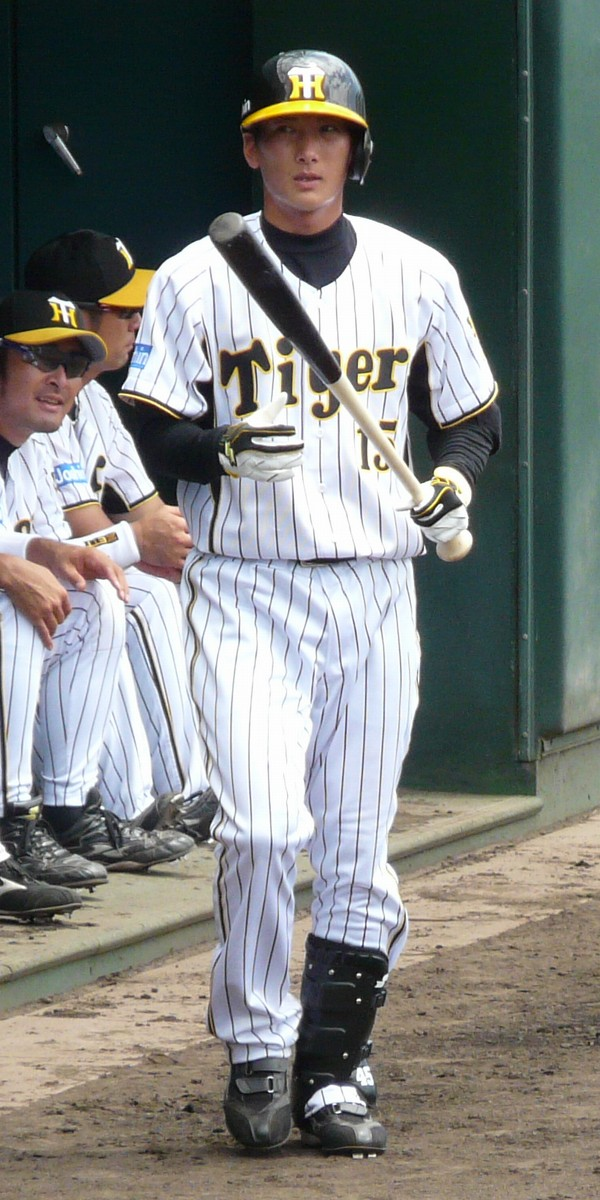 Keisuke Mizuta, infielder of the Hanshin Tigers, at Hanshin Naruohama Baseball Ground.